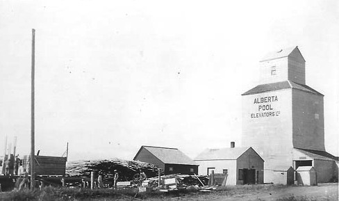 Alberta Farmers Co-operative Co. elevator, built in 1913; company taken over by Alberta Pool Elevators